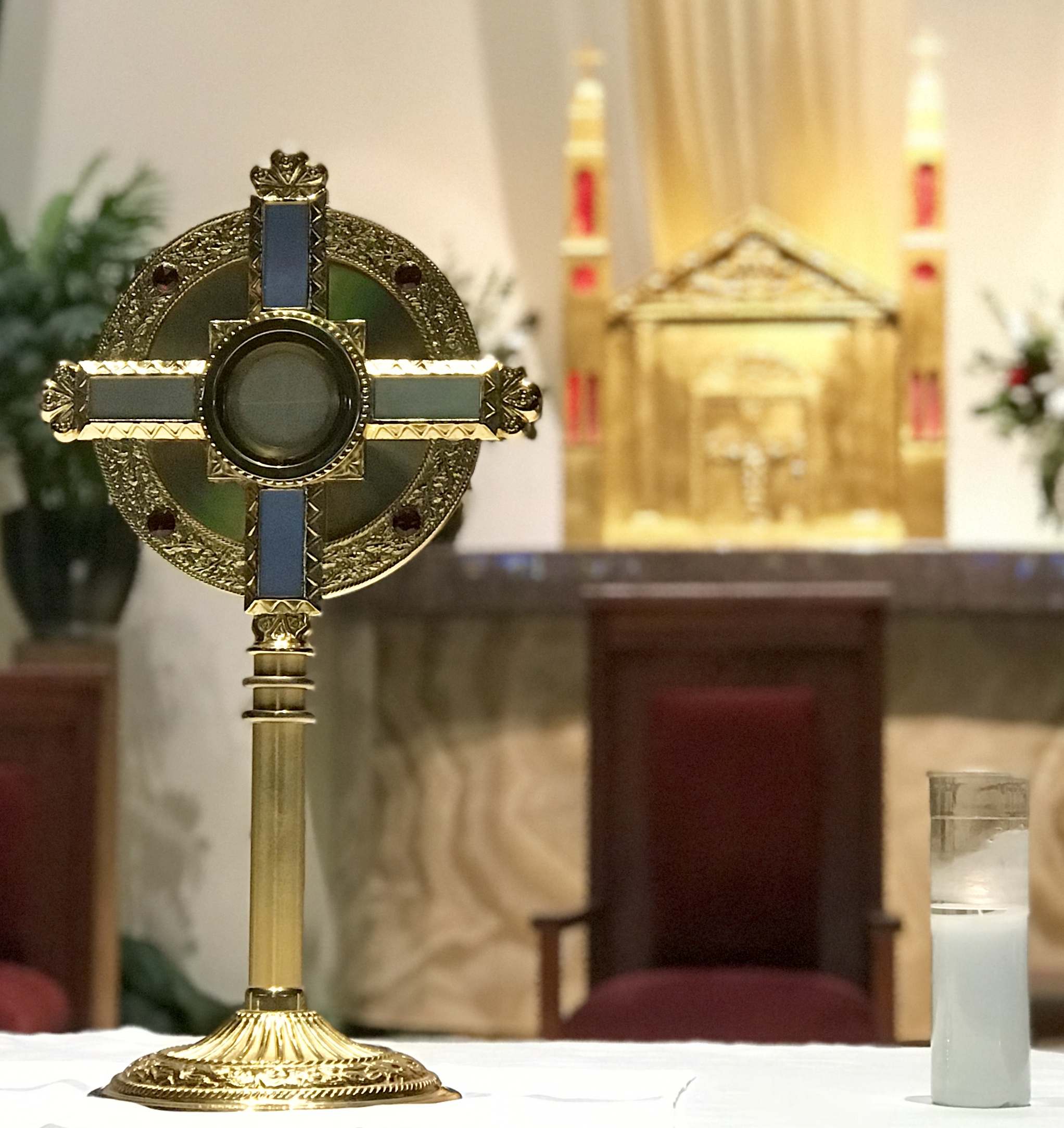 Eucharistic Adoration of Jesus in the Monstrance at Little Flower with the new tabernacle that was added to celebrate 70 years of the church in Reno and 40 years at the current location on Oct 1, 2018